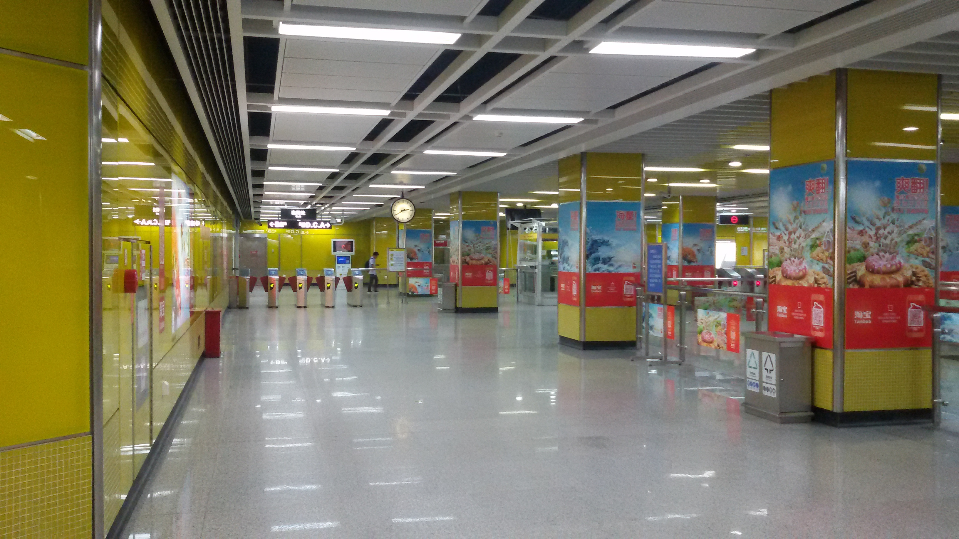 Station Concourse for Higher Education Mega Center South Station in Guangzhou Metro.